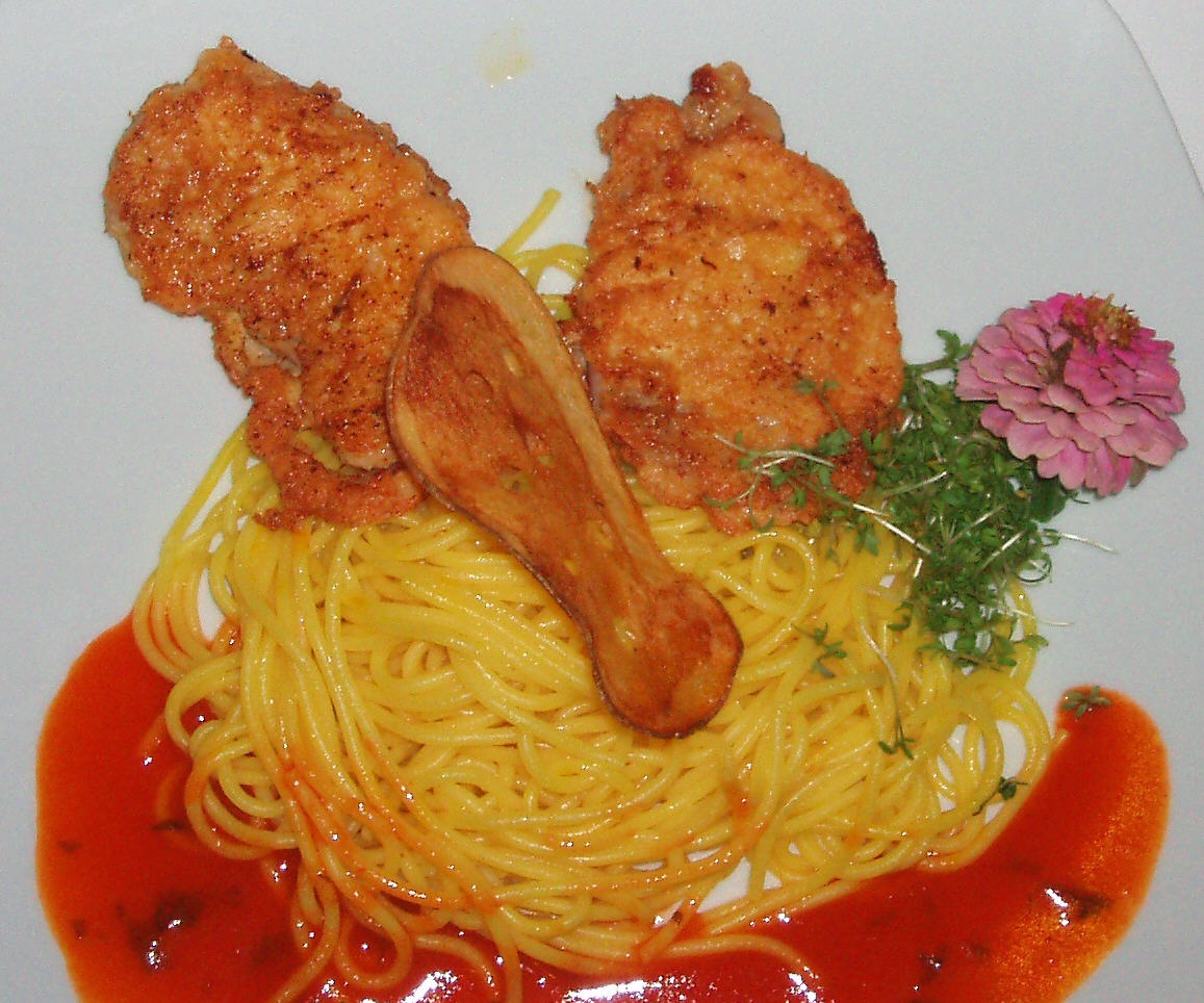 Piccata Milanese